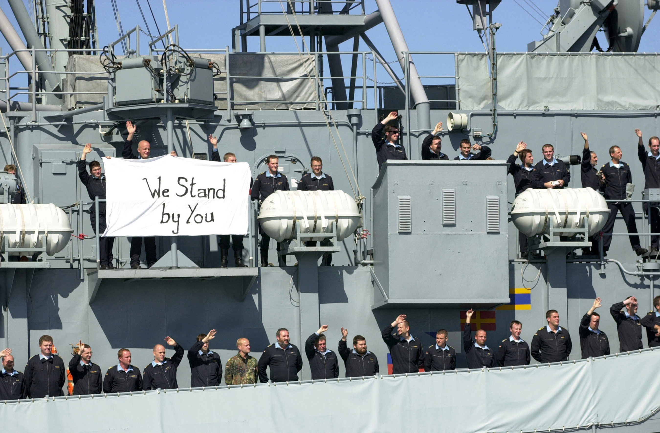 ENGLISH CHANNEL (Sept. 13, 2001) Sailors aboard the German navy destroyer FGS Luetjens (D 185) express their condolences to Sailors aboard the guided-missile destroyer USS Winston S. Churchill (DDG 81) in response to the terrorist attacks in the United States. Churchill, the Norfolk, Va.-based destroyer is just finishing Flag Officer Sea Training (FOST), a comprehensive training program hosted by the Royal Navy. (U.S. Navy photo by Photographer's Mate 2nd Class Shane McCoy/Released)